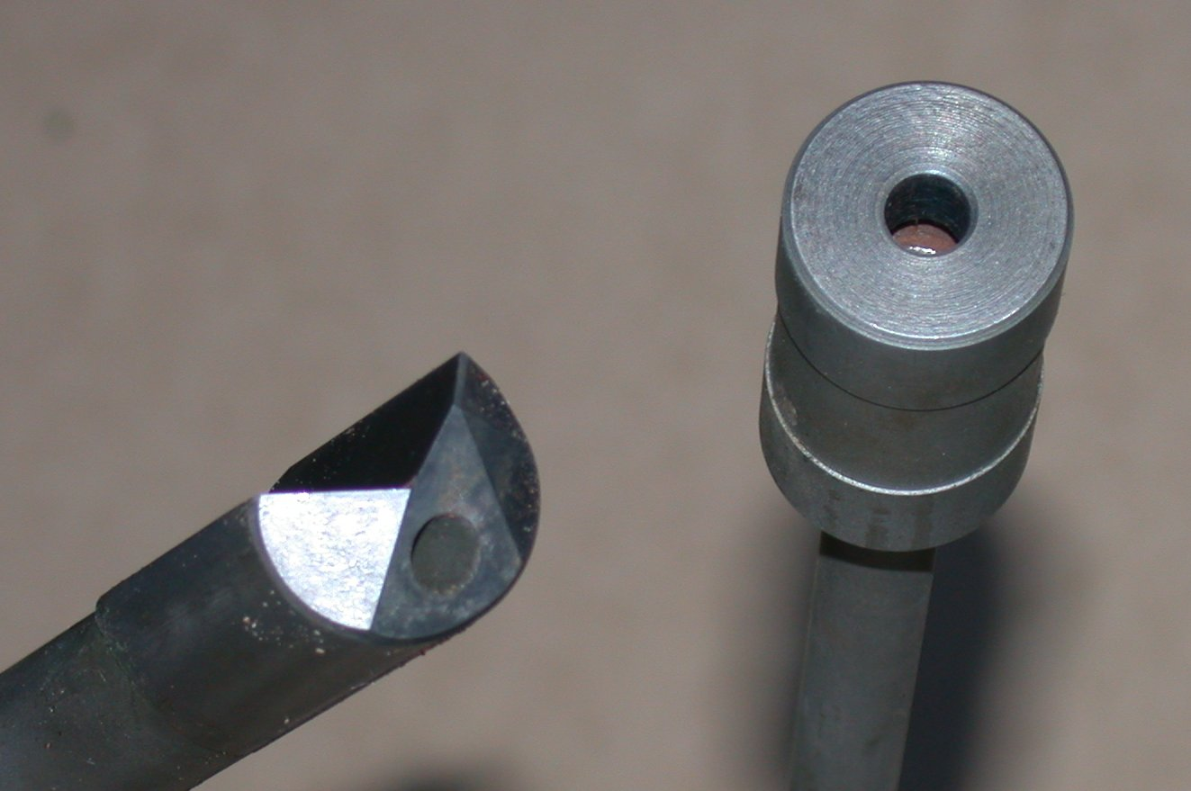 Close up view of the drill tip and base of the coolant holes in a gundrill.